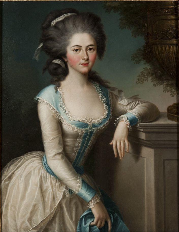 Portrait of Marie Joséphine Thérèse of Lorraine (1753-1797), later Princess of Carignan